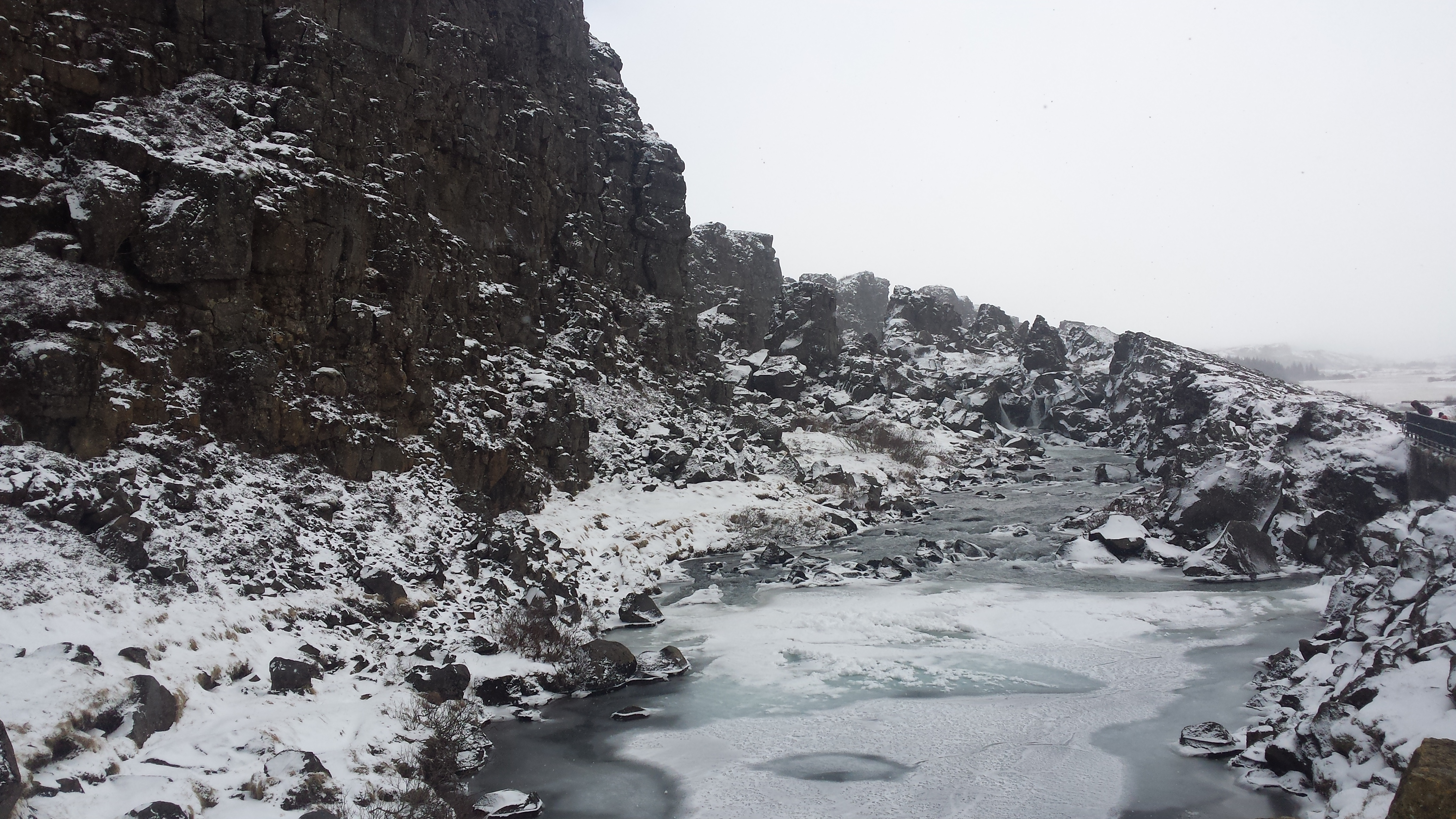 Þingvellir in the snow, Iceland